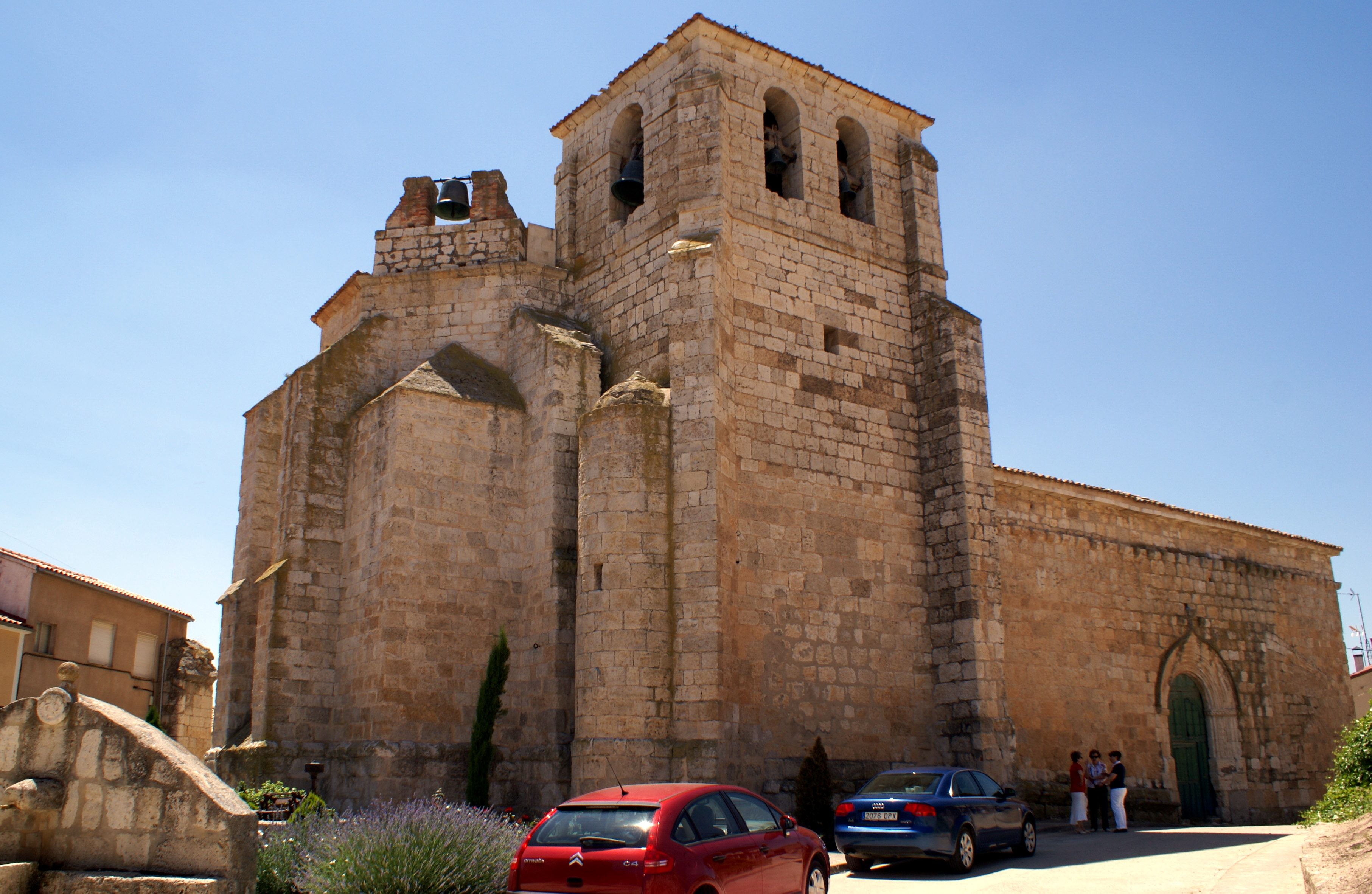 St. Mary's church in Curiel de Duero, Valladolid, Spain.